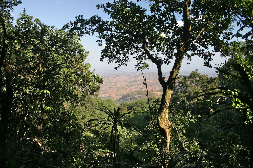 Nchisi Forest Reserve. Indigenous rain forest